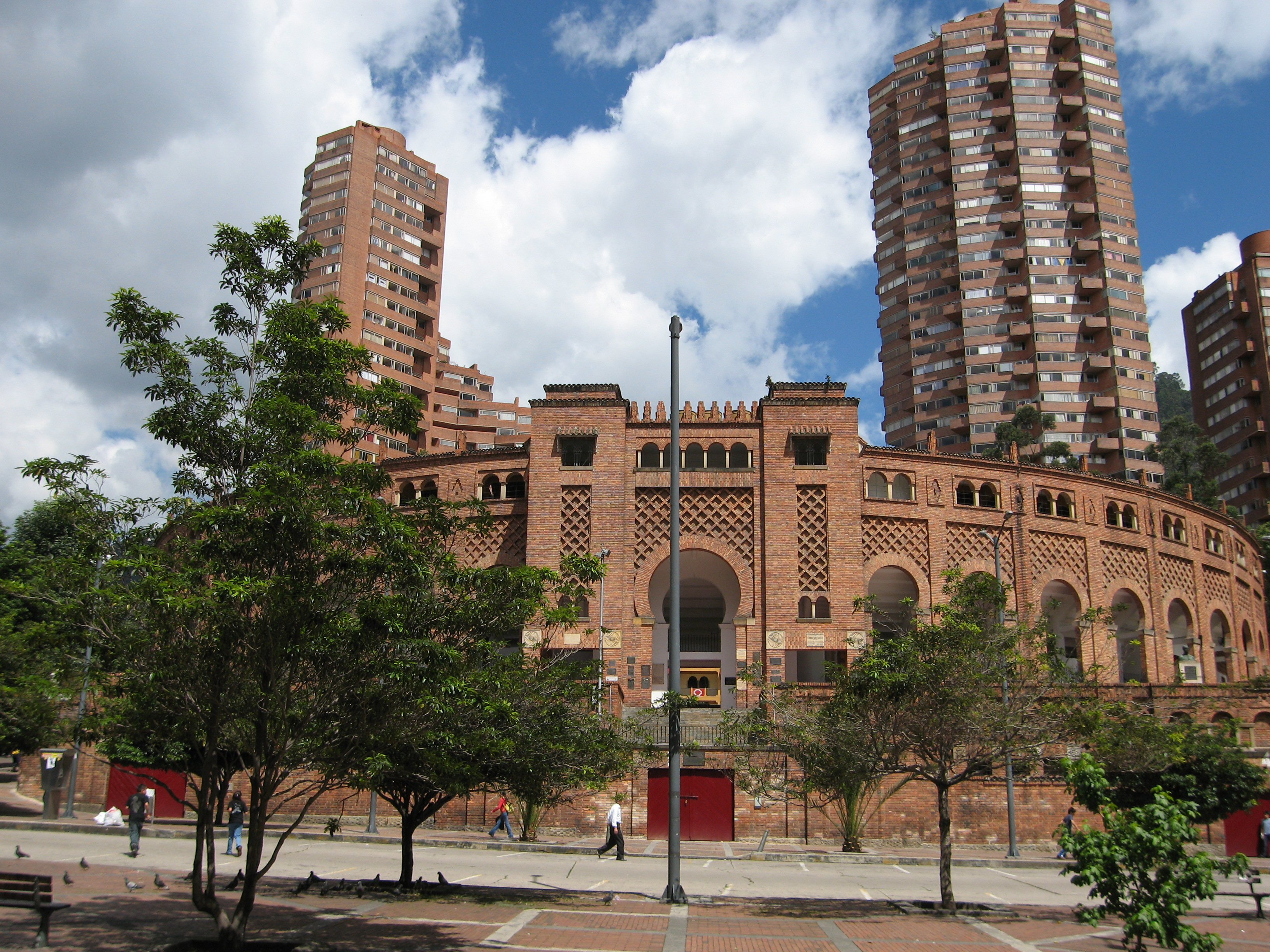 La Plaza de Toros de Santa Maria with Los Torres del Parque behind. (I, David van der Woude, the creator of this work, hereby grant the permission to copy, distribute and/or modify this document under the terms of the GNU Free Documentation License, Version 1.2 or any later version published by the Free Software Foundation; with no Invariant Sections, no Front-Cover Texts, and no Back-Cover Texts.)